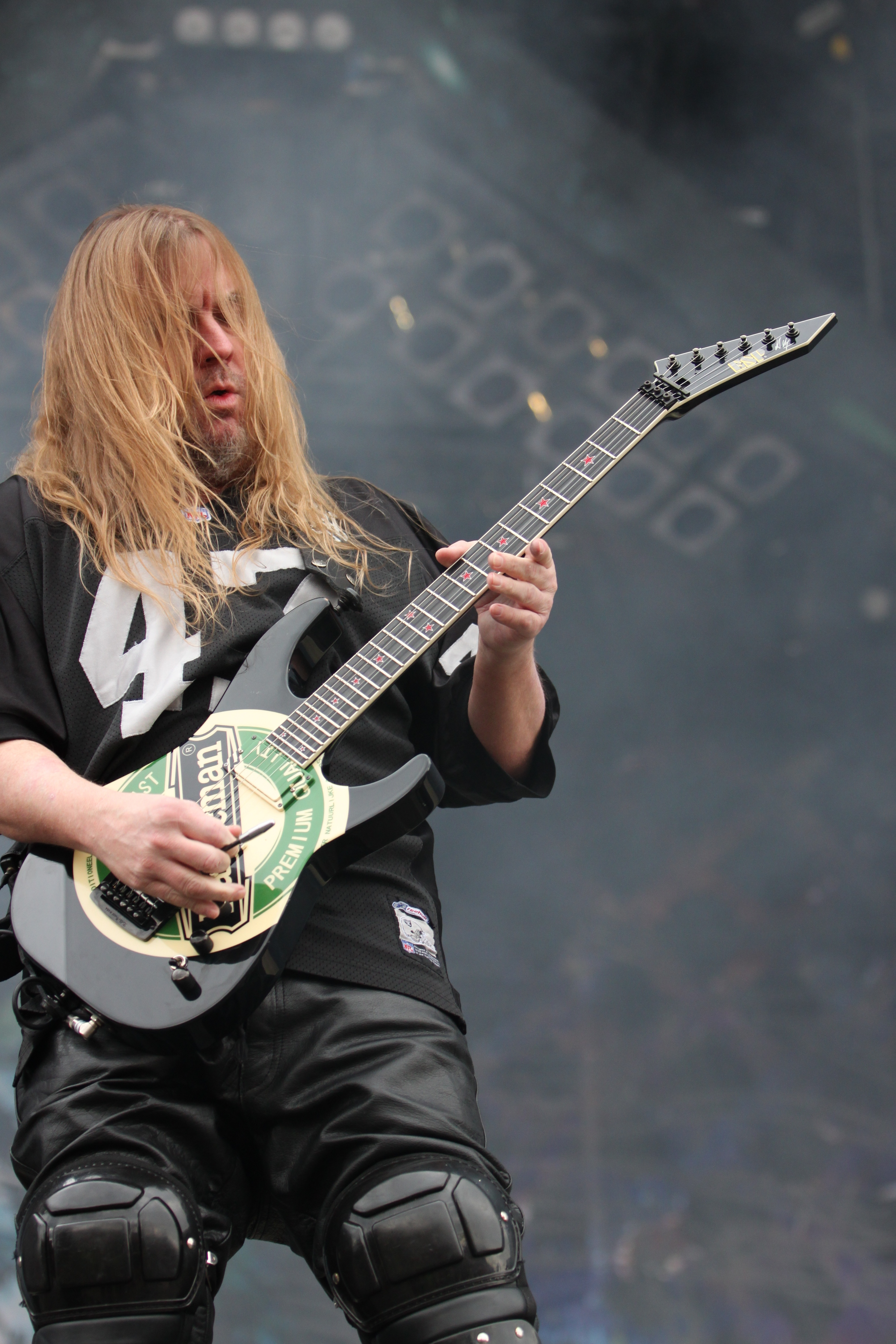 Jeff Hanneman of Slayer performing at Sonisphere Festival, Knebworth. August 2010.